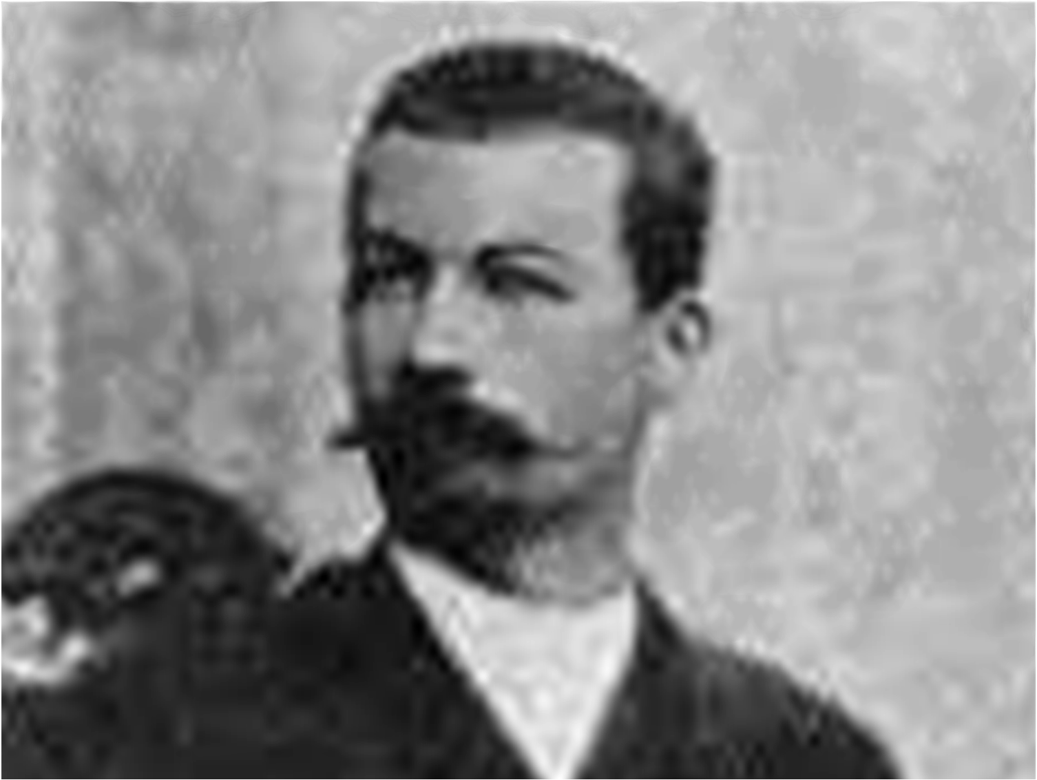 French explorer and colonialist Marcel Treich-Laplène (1860-1890)